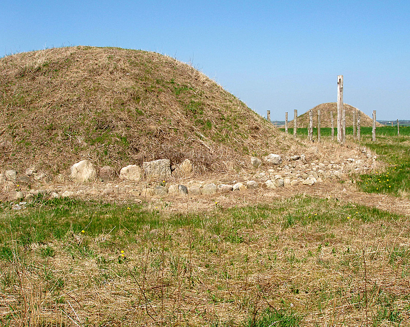 Rekonstructed tumuli of the Bronze Age in Borum Eshøj (Borum Sogn, Framlev Herred, Århus Amt, Denmark).